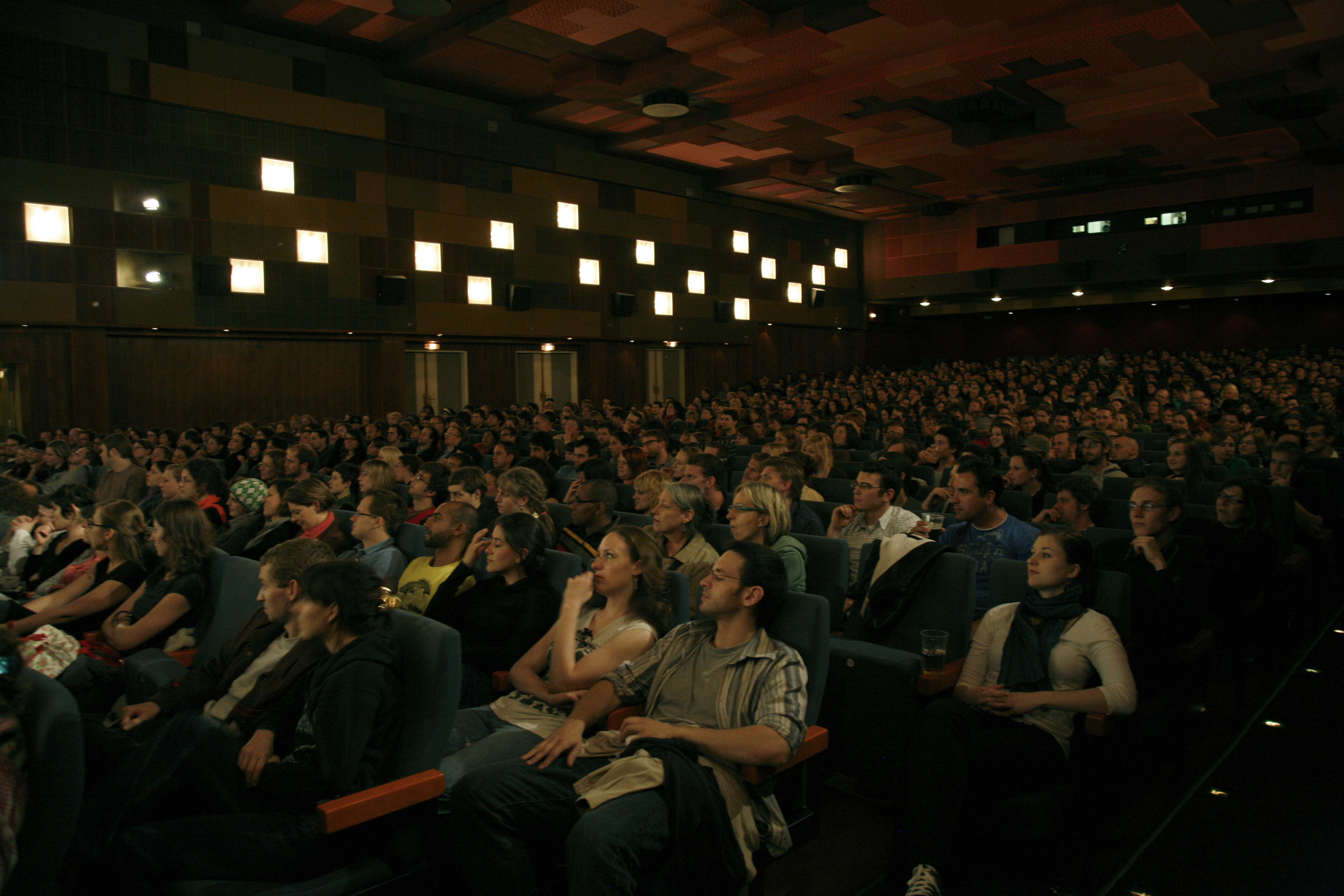 VIS Vienna Independent Shorts 2009: opening night of the film festival at the Gartenbaukino in Vienna.